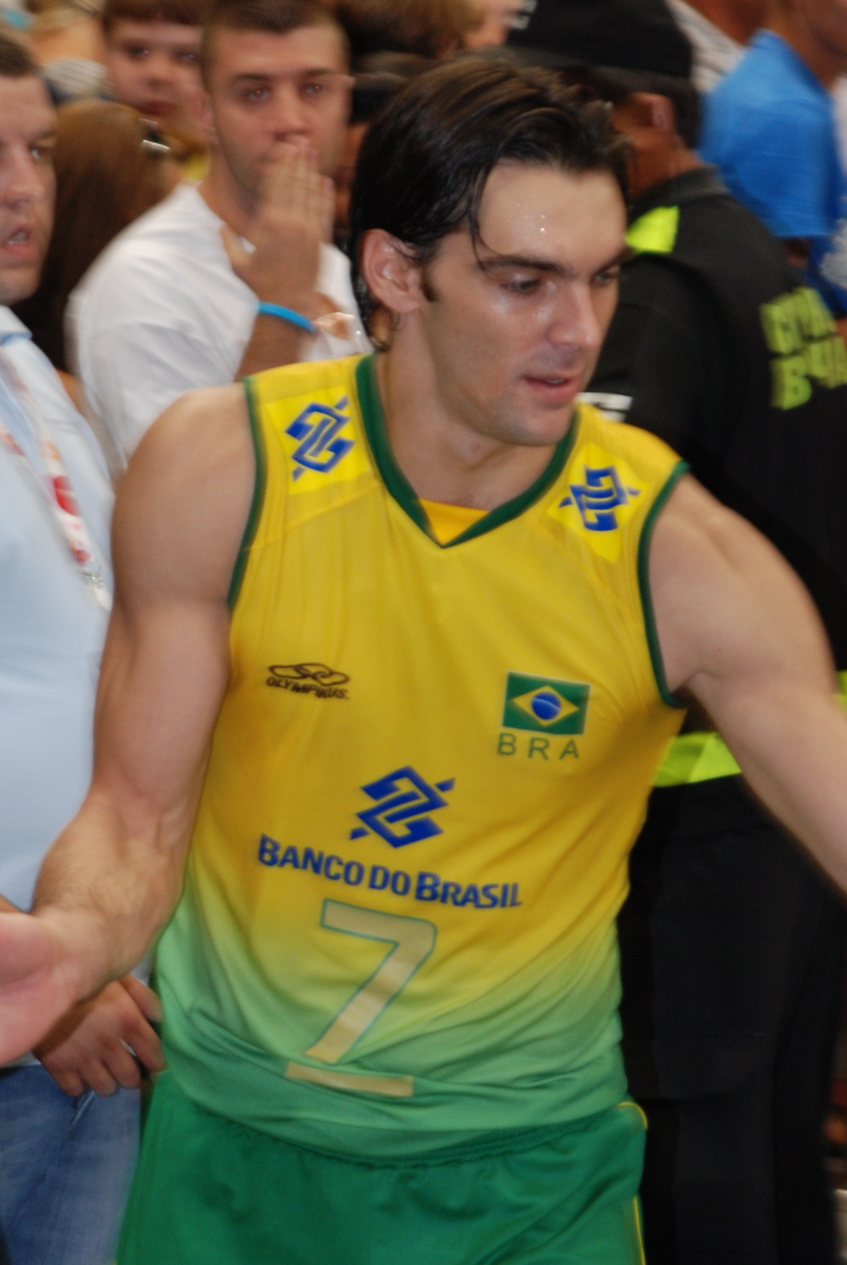 Brazilian volleyball player Gilberto Godoy Filho (Giba)